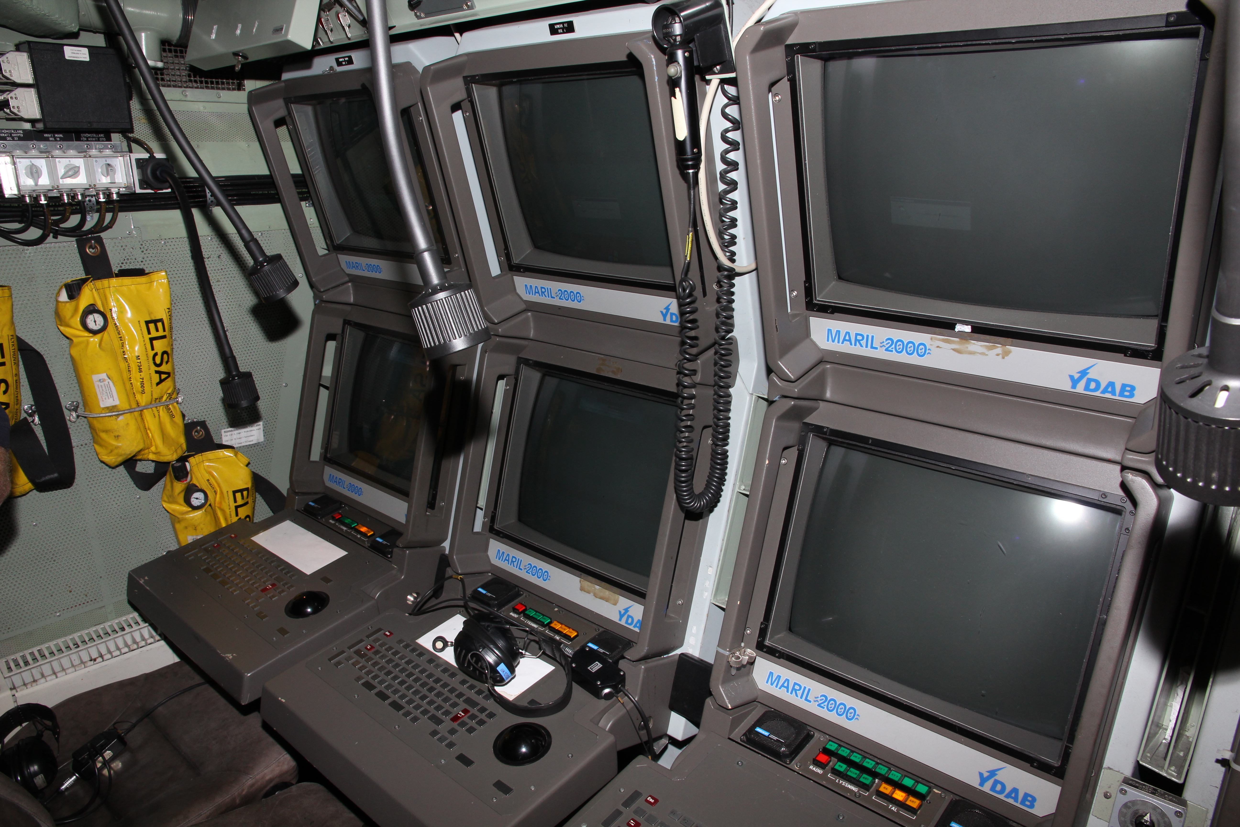 Maril 2000 combat data system screens in the combat informarion center of Swedish Veteranflottiljen museum missileboat Ystad (R142) photographed while visiting Forum Marinum maritime museum in Turku.